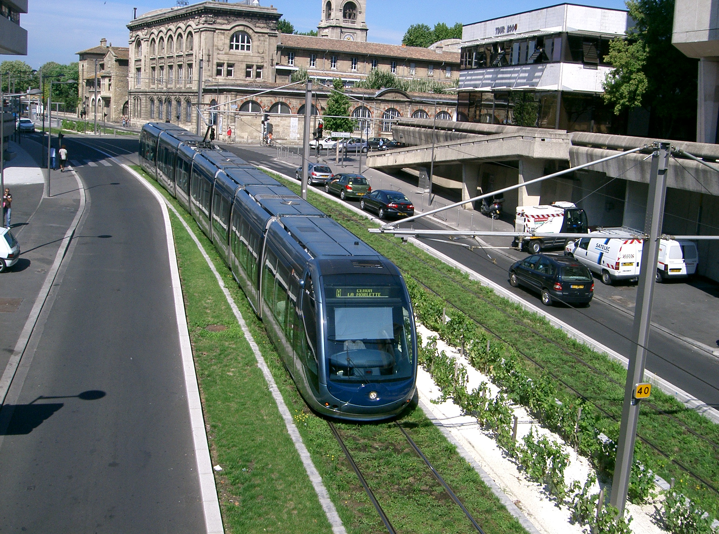 Lawn track & vines in Bordeaux Photographed by SP Smiler